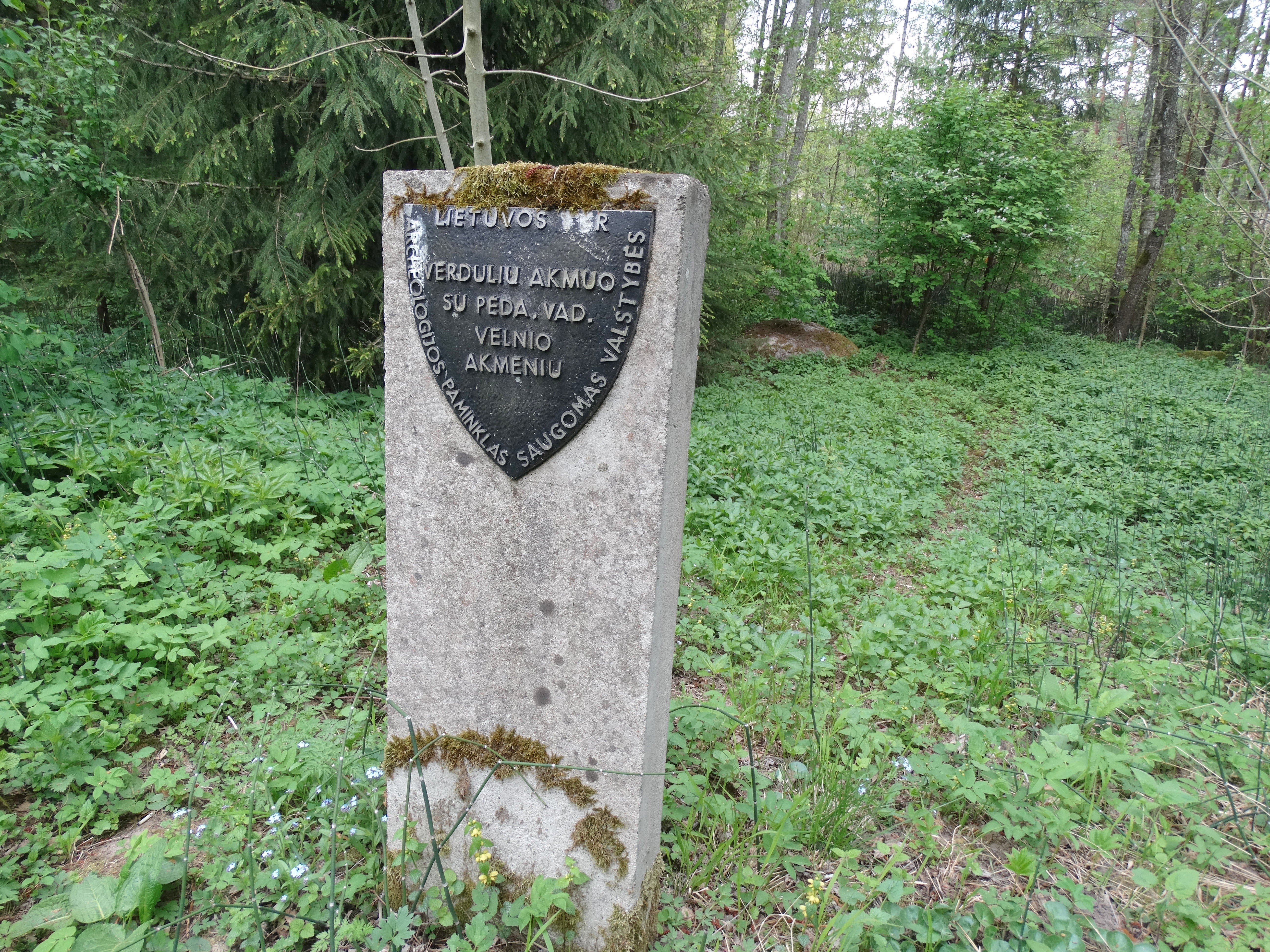 Devil's Stone sign, Verduliai (Radviliškis), Lithuania